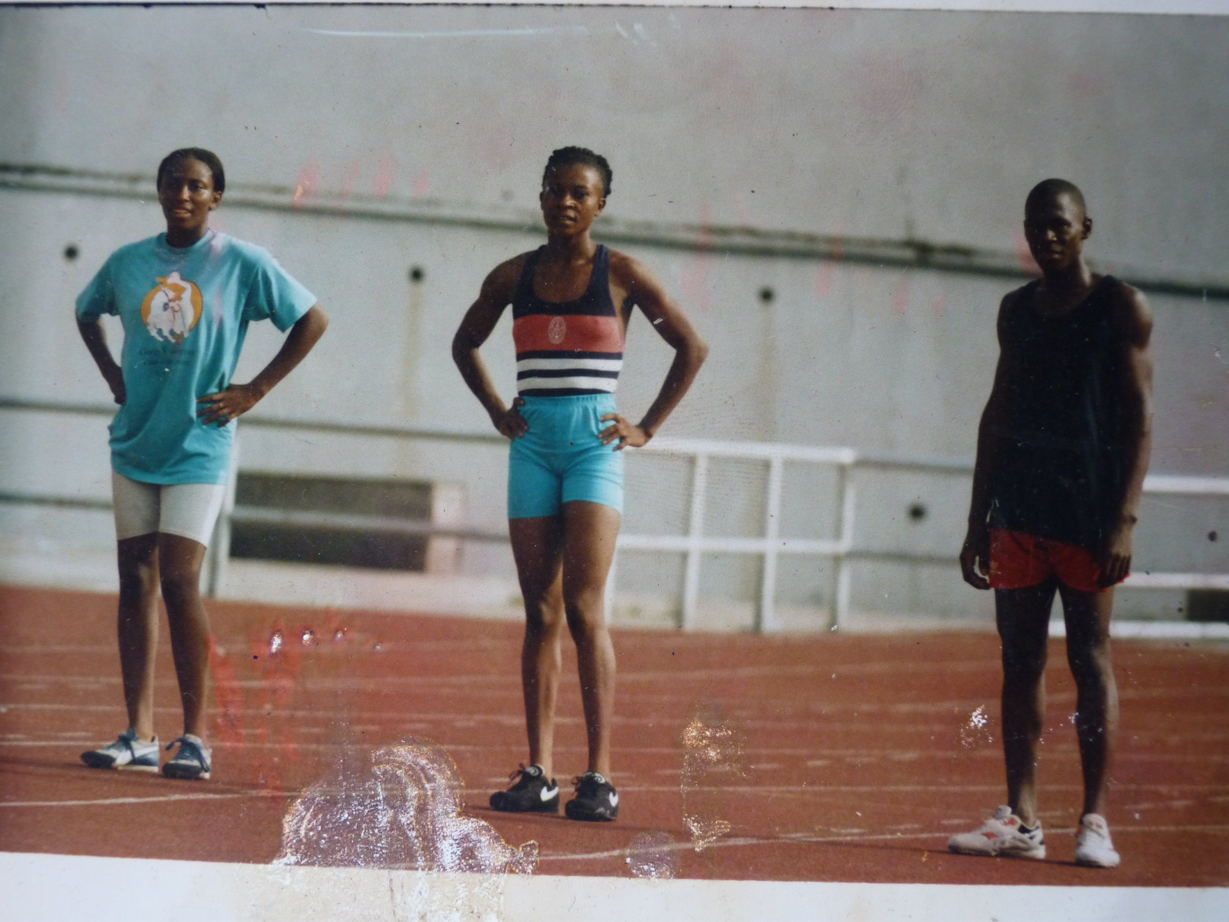 Grace Ebor_Winner of 800m gold medal, All Africa Games 2003